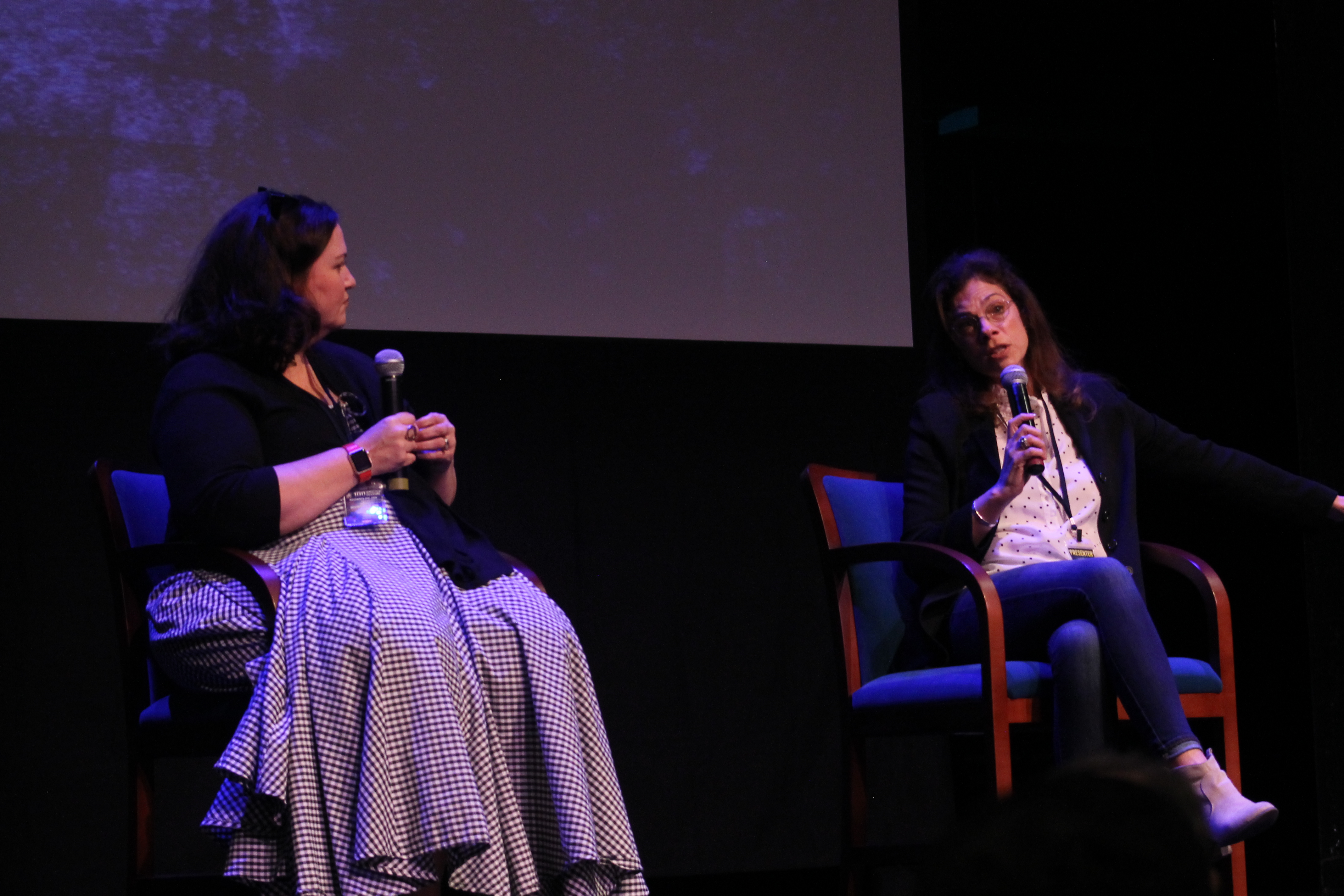 Kristin McCracken and Deirdre Haj speaking at a seminar at the 3rd annual 100 Words Film Festival.